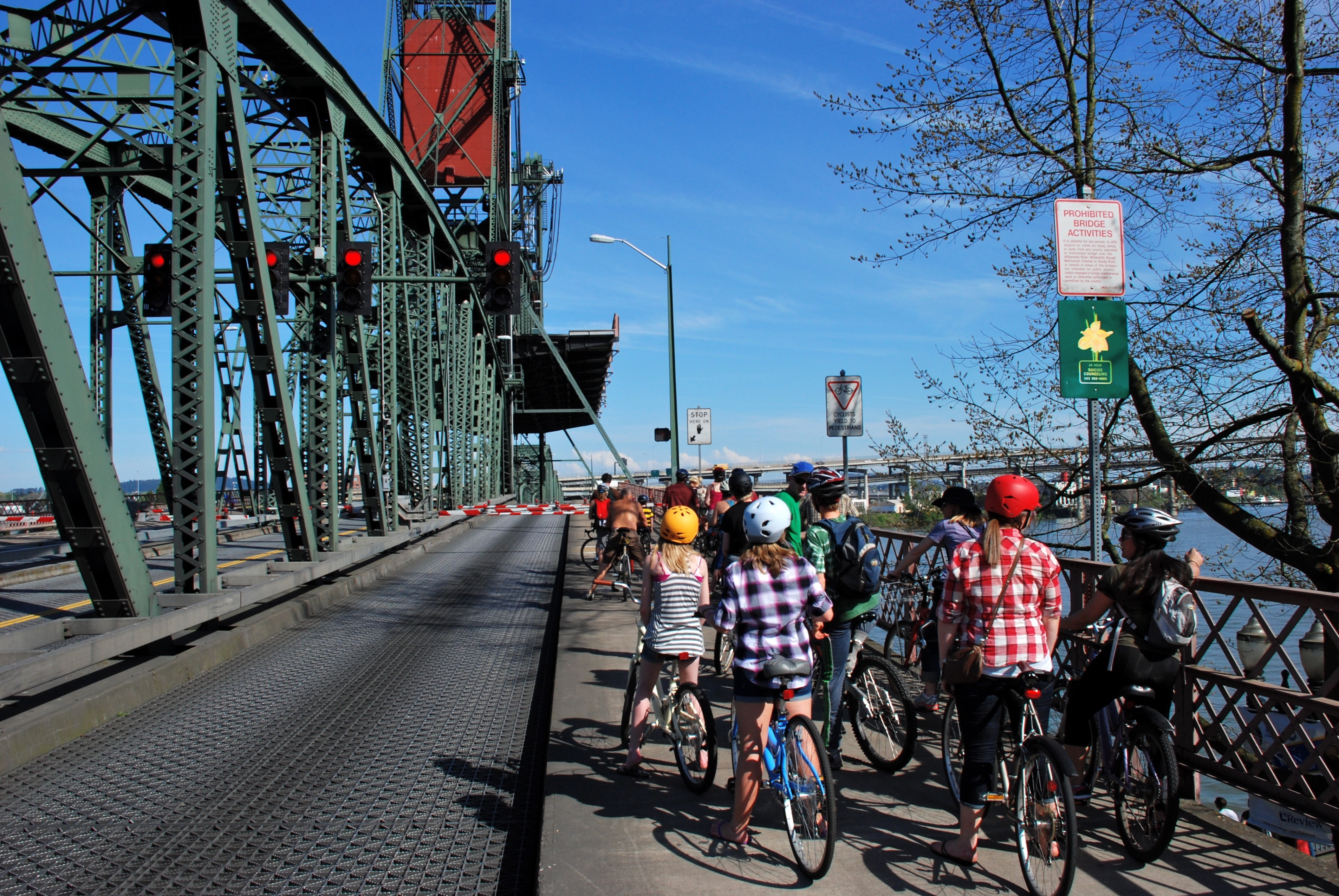 Cyclists waiting on Portland's Hawthorne Bridge during a raising of the lift span for marine traffic. This view is on the south sidewalk, looking east.